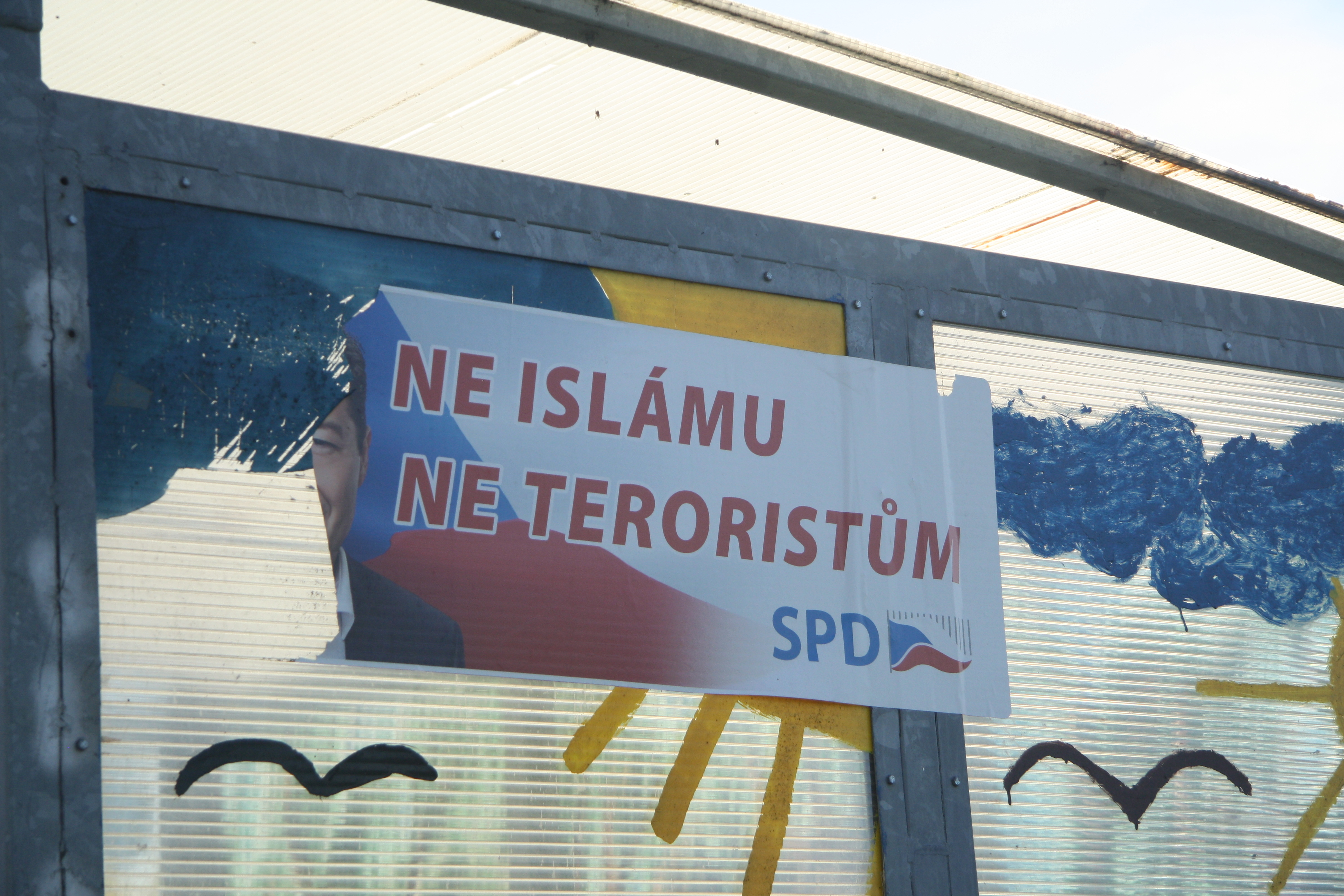 Svoboda a přímá demokracie advertising at bus stop Zmišovice at road II 112 near Zmišovice, Červená Řečice, Pelhřimov District.